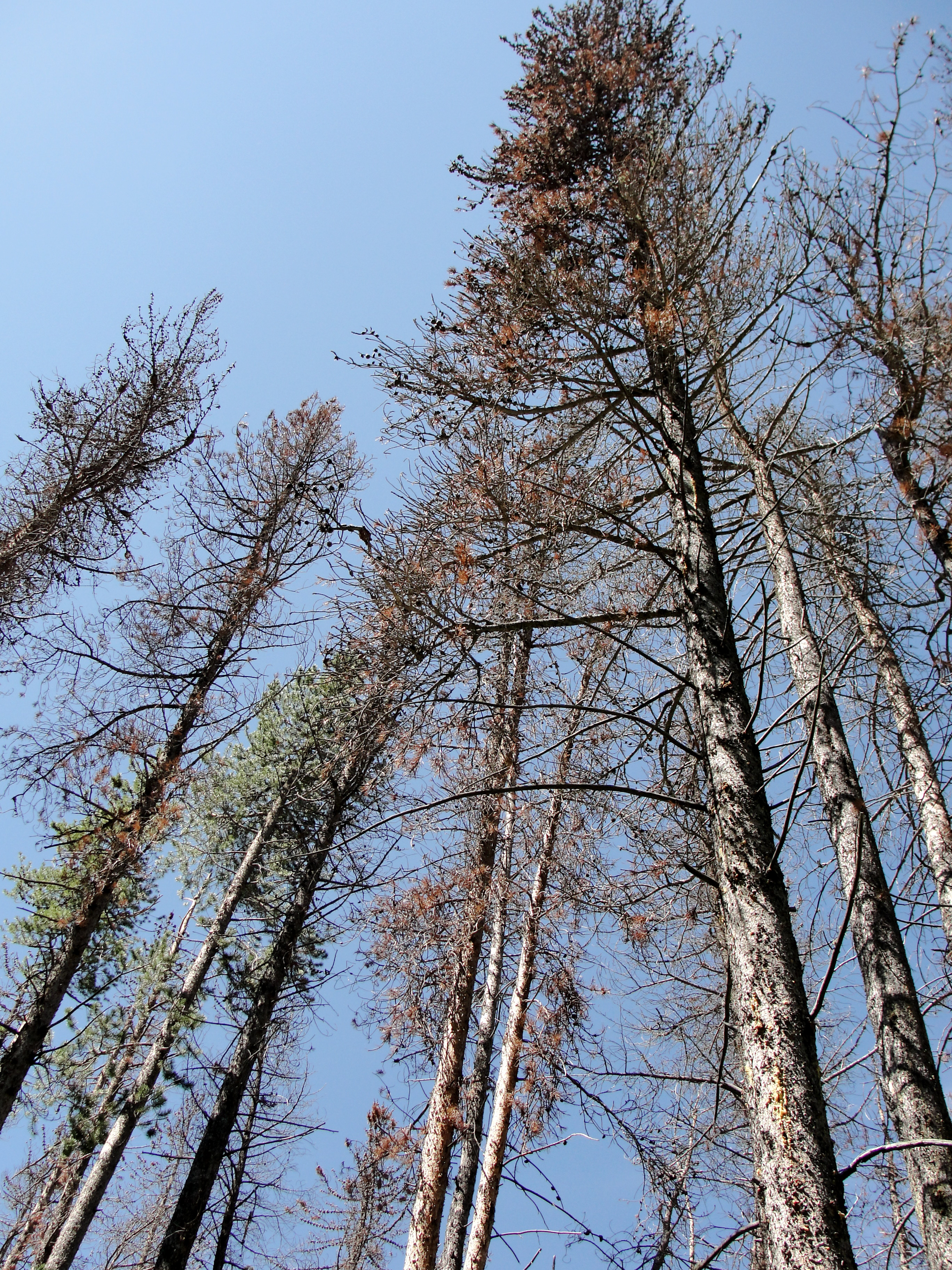 Beetle Kill. Due to climate change, pine bark beetles have killed large swathes of pines throughout the park. On windy days, beware of falling trees and "widow maker" branches. Rocky Mountain National Park, Colorado